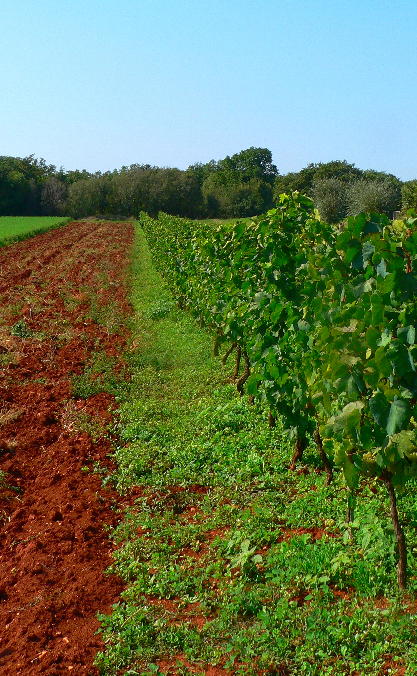 Malvasia Vine in southern Istra. Cropped version at Image:Terra Rossa soil.JPG